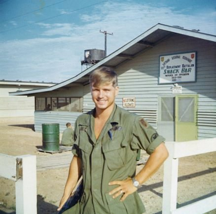 James McCloughan in front of the 22nd Replacement Bn Snack Bar at Cam Ranh Bay in 1969. (Photo courtesy of James McCloughan)